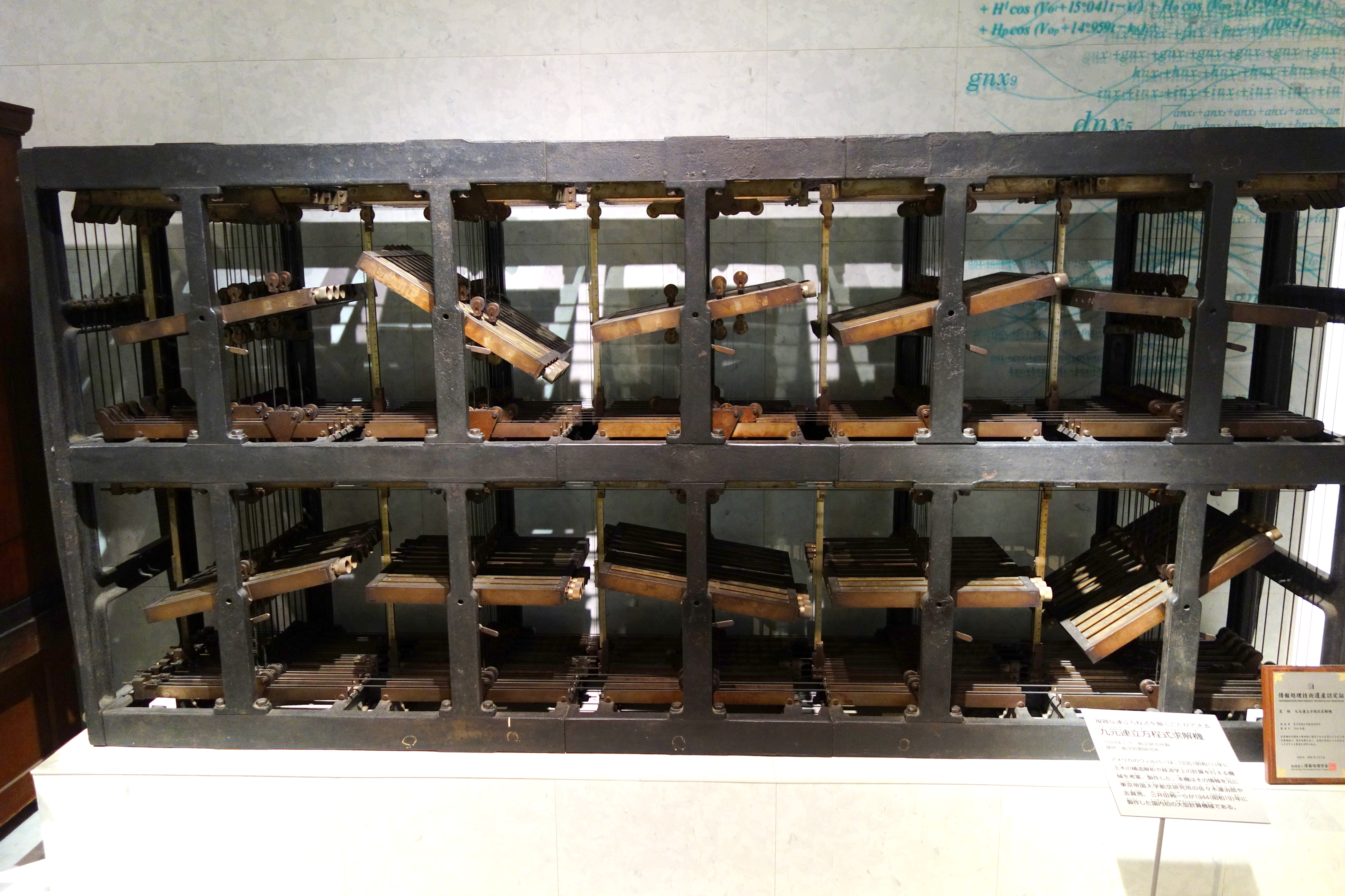 Exhibit in the National Museum of Nature and Science, Tokyo, Japan.